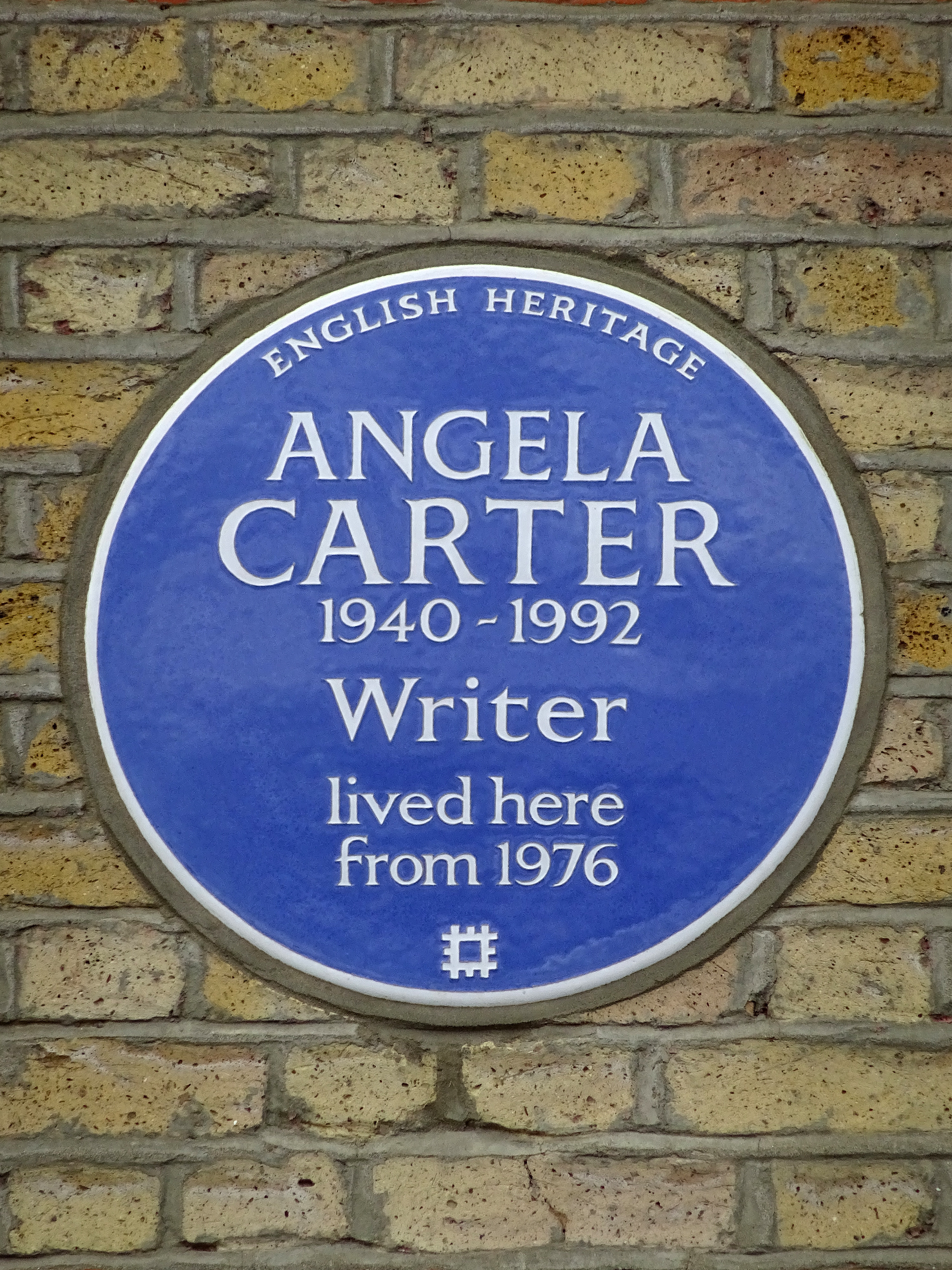 Blue plaque erected on 11th September 2019 by English Heritage at 107 The Chase, Clapham, London, SW4 0NR, London Borough of Lambeth